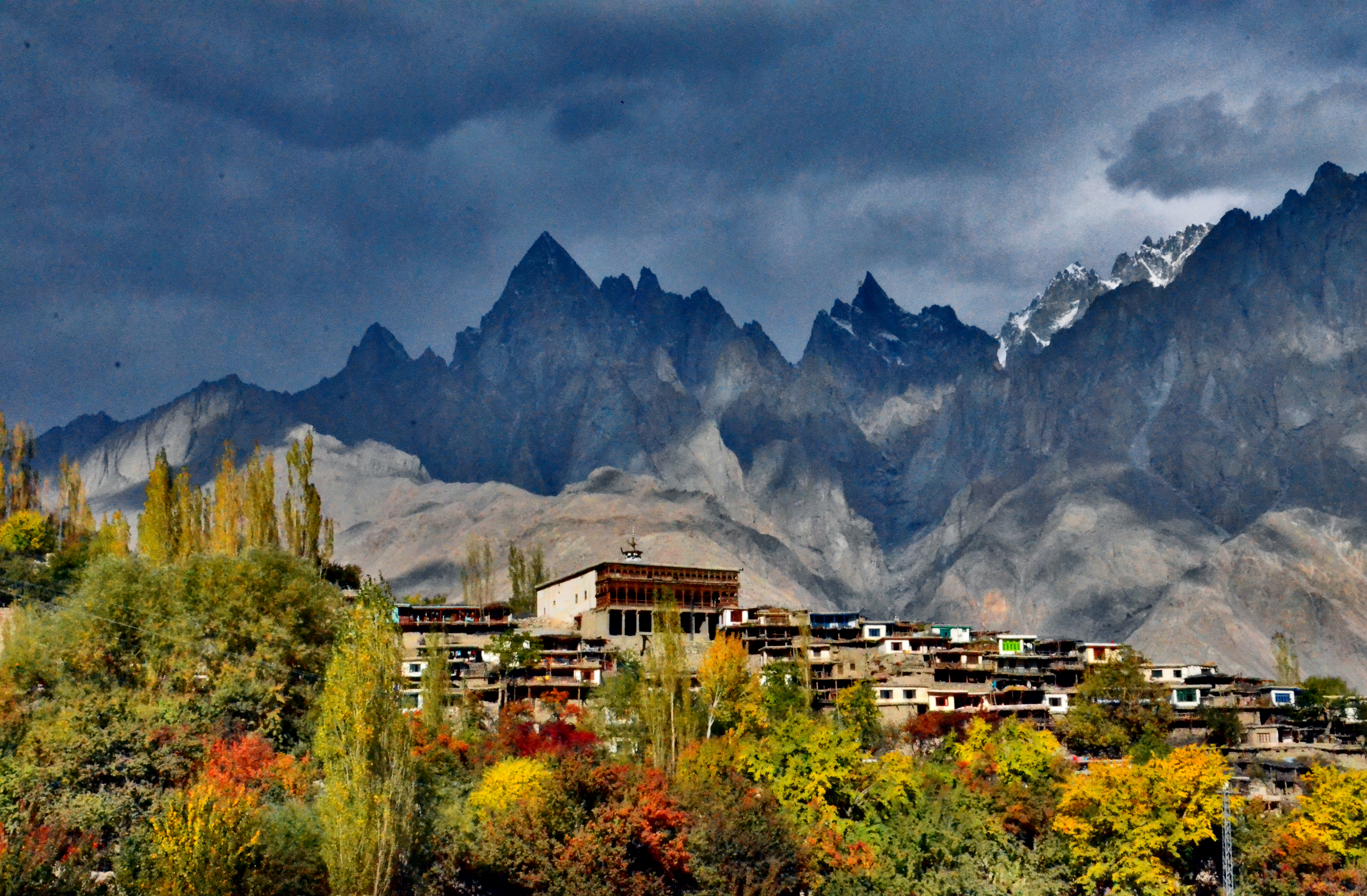 Machlu Village, Khaplu Ghizer GB (Pakistan)